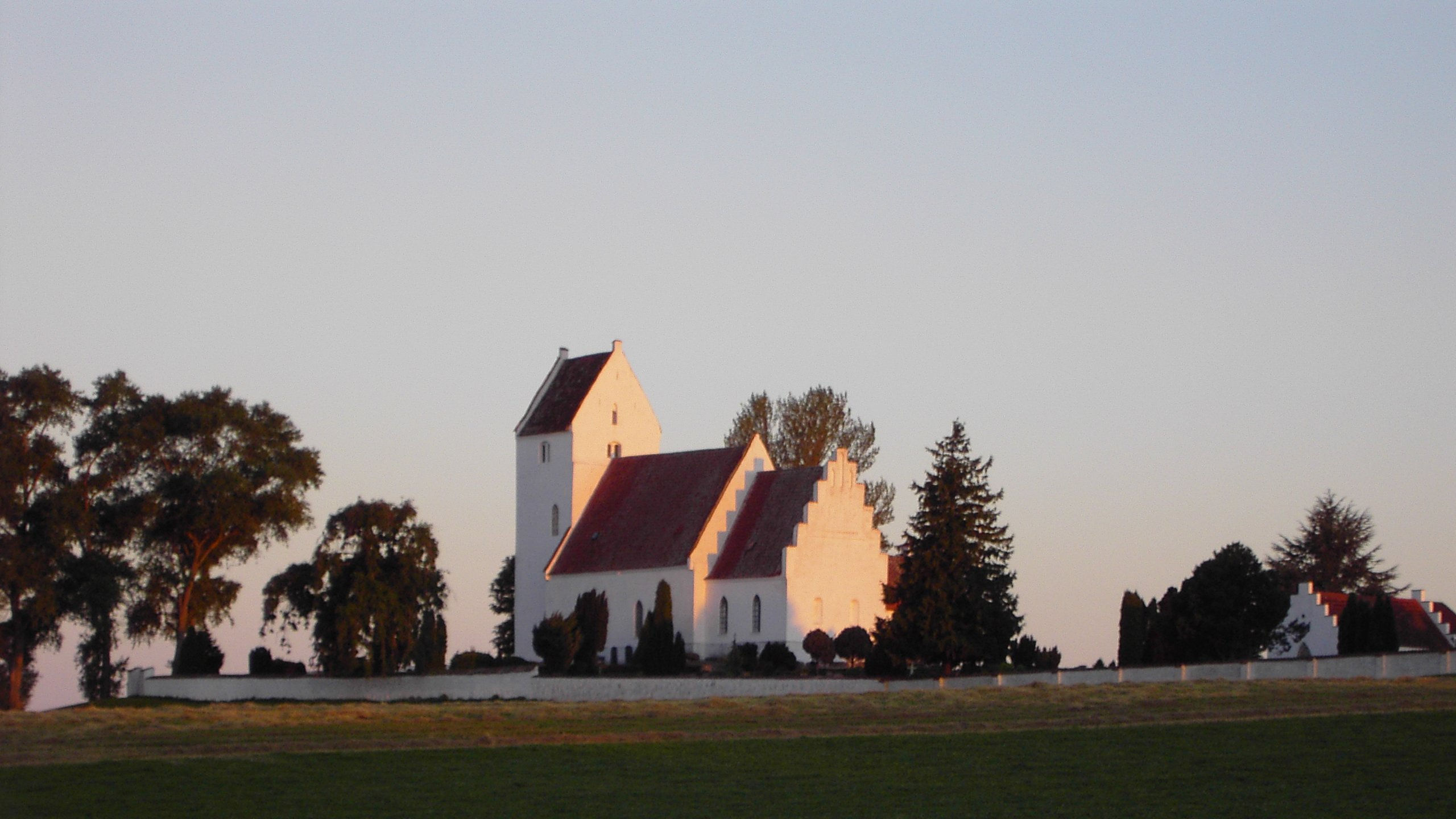 Kalvehave church seen from south east